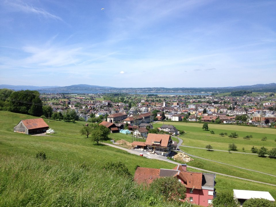 siebnen at summer 2012